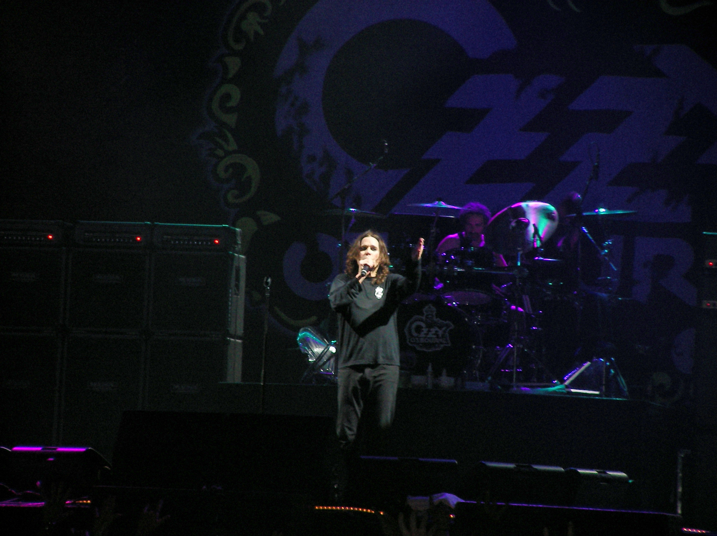 Ozzy Osbourne performing live at Monster of Rock 2007 (Spain).Ozzy Osbourne